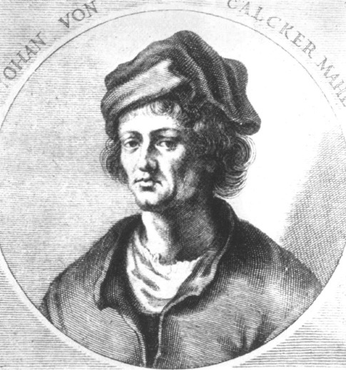 Jan Stephen van Calcar